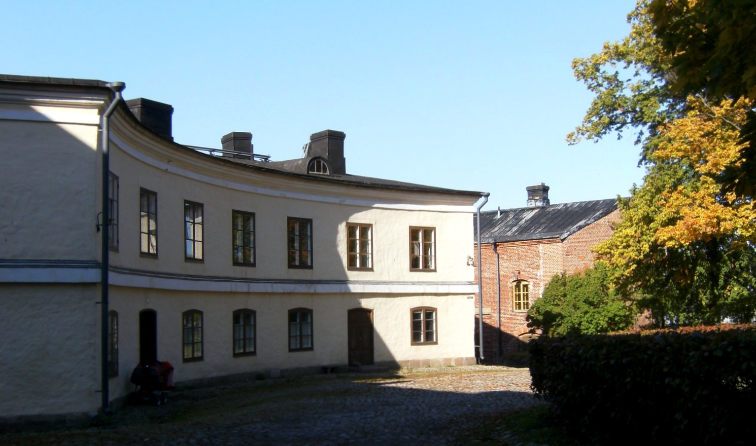 Paikallismajurin talo, Susisaari, Suomenlinna, Helsinki, Finland